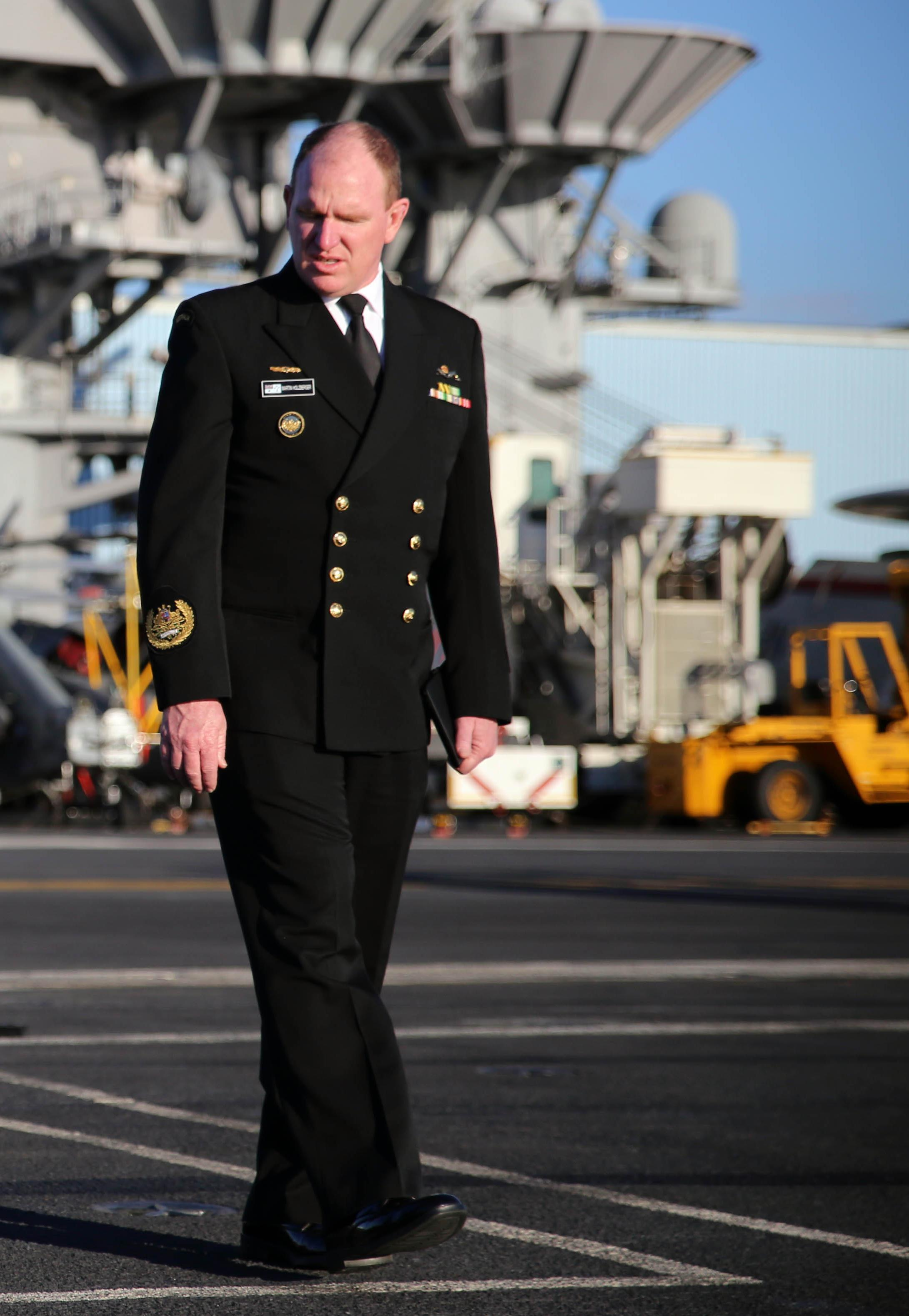 Cropped version of showing Royal Australian Navy Warrant Officer of the Navy Martin Holzberger Caption of the original uncropped photo: BRISBANE, Australia (Aug. 2, 2013) Commander, Task Force 70 Command Master Chief Joseph Fahrney, left, gives Royal Australian Navy Warrant Officer (of the Navy) Martin Holzberger a tour of the flight deck of the aircraft carrier USS George Washington (CVN 73) during a port visit. George Washington and its embarked air wing, Carrier Air Wing (CVW) 5, provide a combat-ready force that protects and defends the collective maritime interest of the U.S. and its allies and partners in the Indo-Asia-Pacific region. (U.S. Navy photo by Mass Communication Specialist 3rd Class Michelle N. Rasmusson/Released)